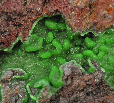 Cornwallite Locality: Pastrana, Mazarrón-Águilas, Murcia, Spain (Locality at ) Size: 4.3 x 3.7 x 2.2 cm. Cornwallite is an uncommon Copper Arsenate which gets its name from the classic English mining district. This specimen is from Spain and features some small yet beautiful emerald green Cornwallite aggregates on matrix.